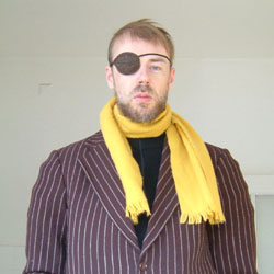 Momus, a.k.a. Nick Currie